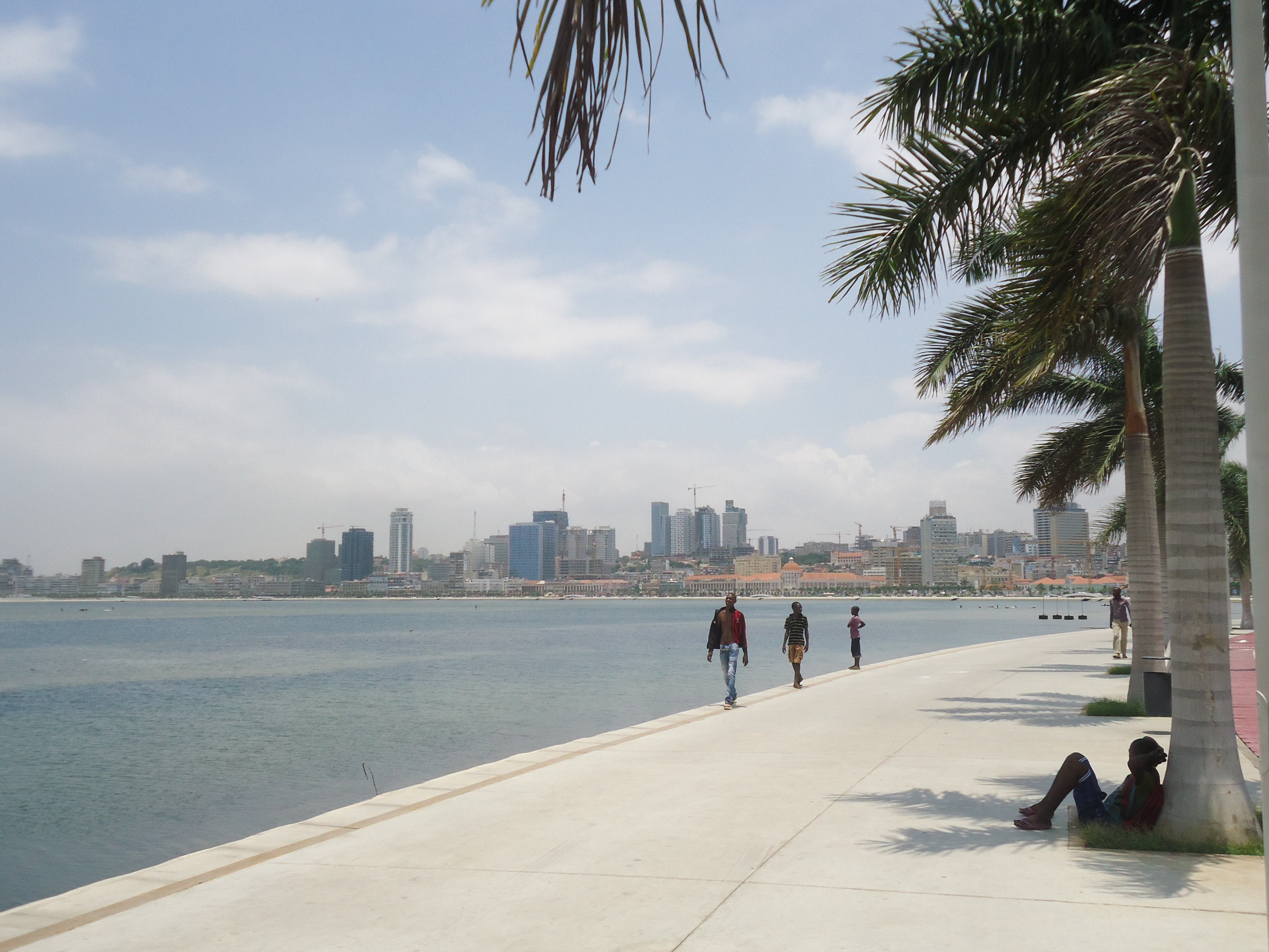 Marginal Avenida 4 de Fevreiro. Photo by Fabio Vanin, Luanda, 2013.